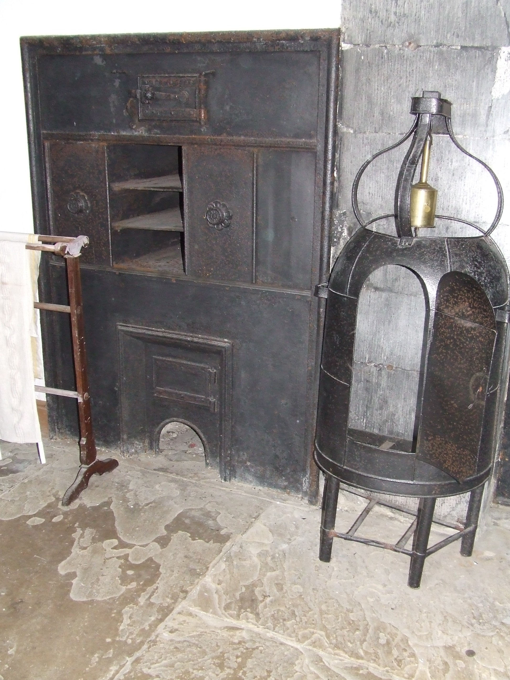 A reflector oven for cooking fowl, mainly game birds. Was in use in the kitchens of Strokestown Park House, County Roscommon during the 19th and 20th centuries. Birds were hung by their feet in the oven and placed before the open hearth. A mechanism rotated the birds.